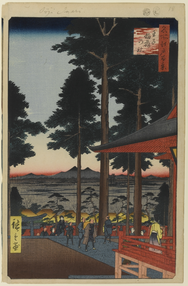 Part of the series One Hundred Famous Views of Edo, no. 018, part 1: Spring.